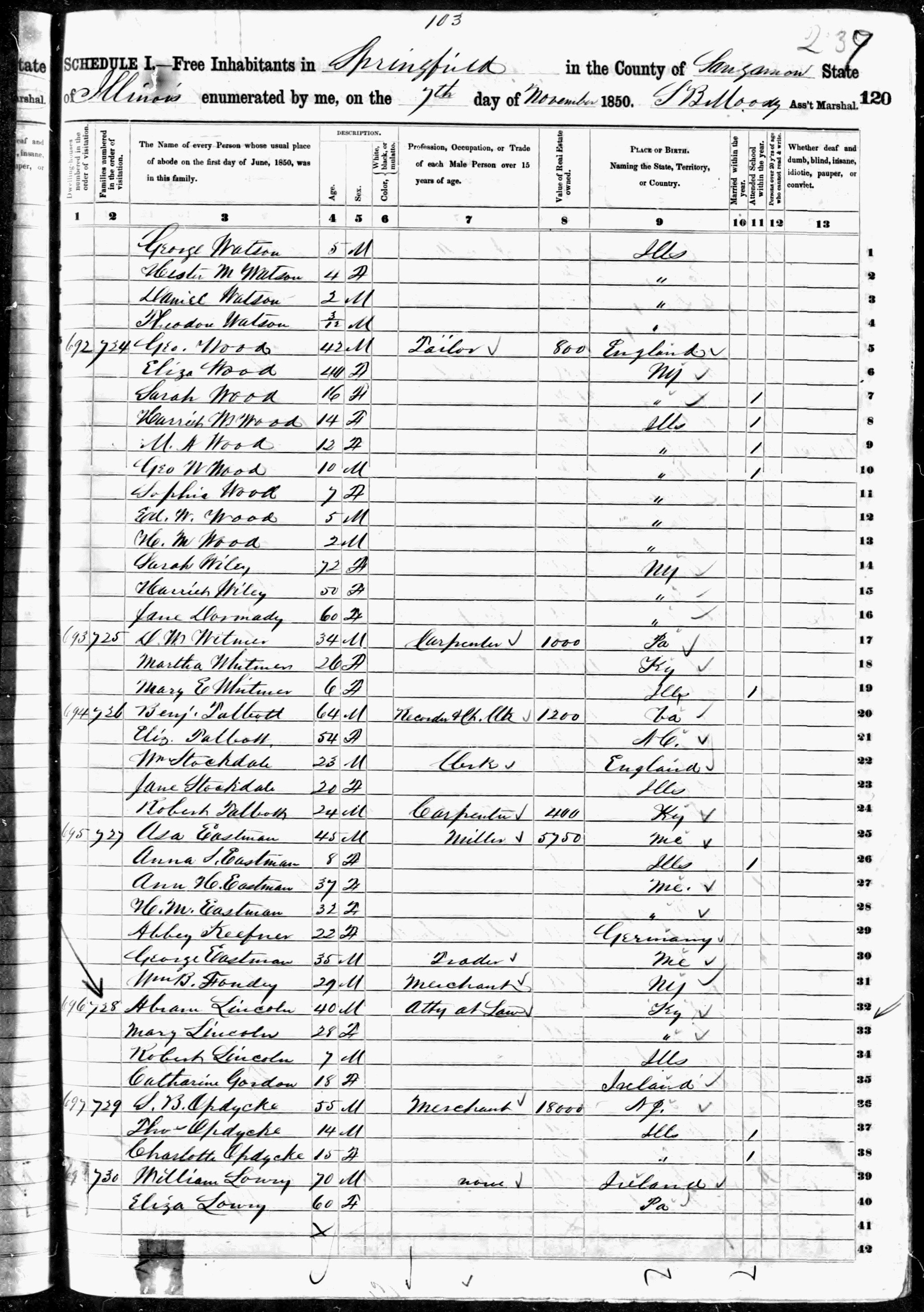 Abraham Lincoln in 1850 US Census. The Lincoln household in Springfield, Illinois included Abraham (spelled "Abram"), Mary, Robert (Todd), and a Catharine Gordon (18 years old, born in Ireland), presumably a servant.